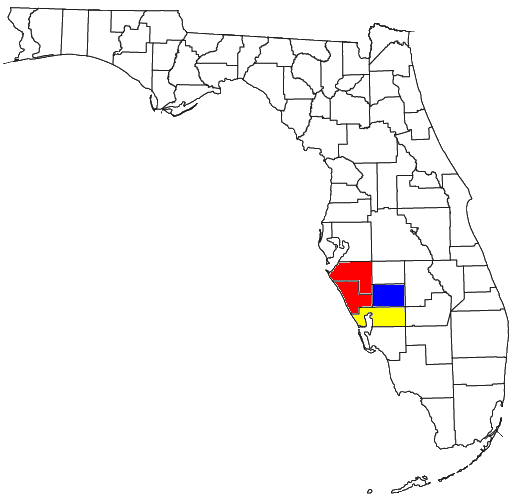 Map of Florida highlighting the North Port-Sarasota-Bradenton Combined Statistical Area (CSA). The three components of the CSA are colored separately: North Port-Sarasota-Bradenton Metropolitan Statistical Area (MSA): red Punta Gorda MSA: yellow Arcadia Micropolitan Statistical Area (µSA): blue